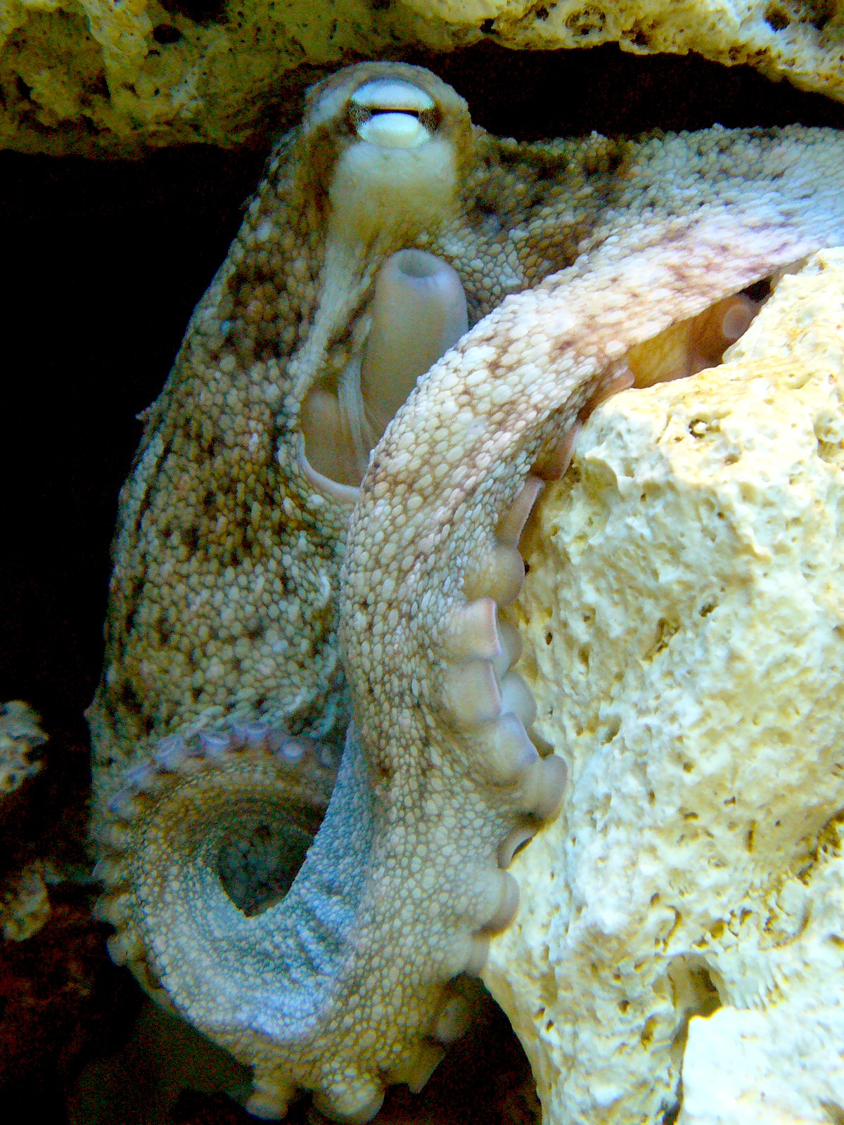 Octopus vulgaris, Octopodidae, Common Octopus Staatliches Museum für Naturkunde Karlsruhe, Germany.